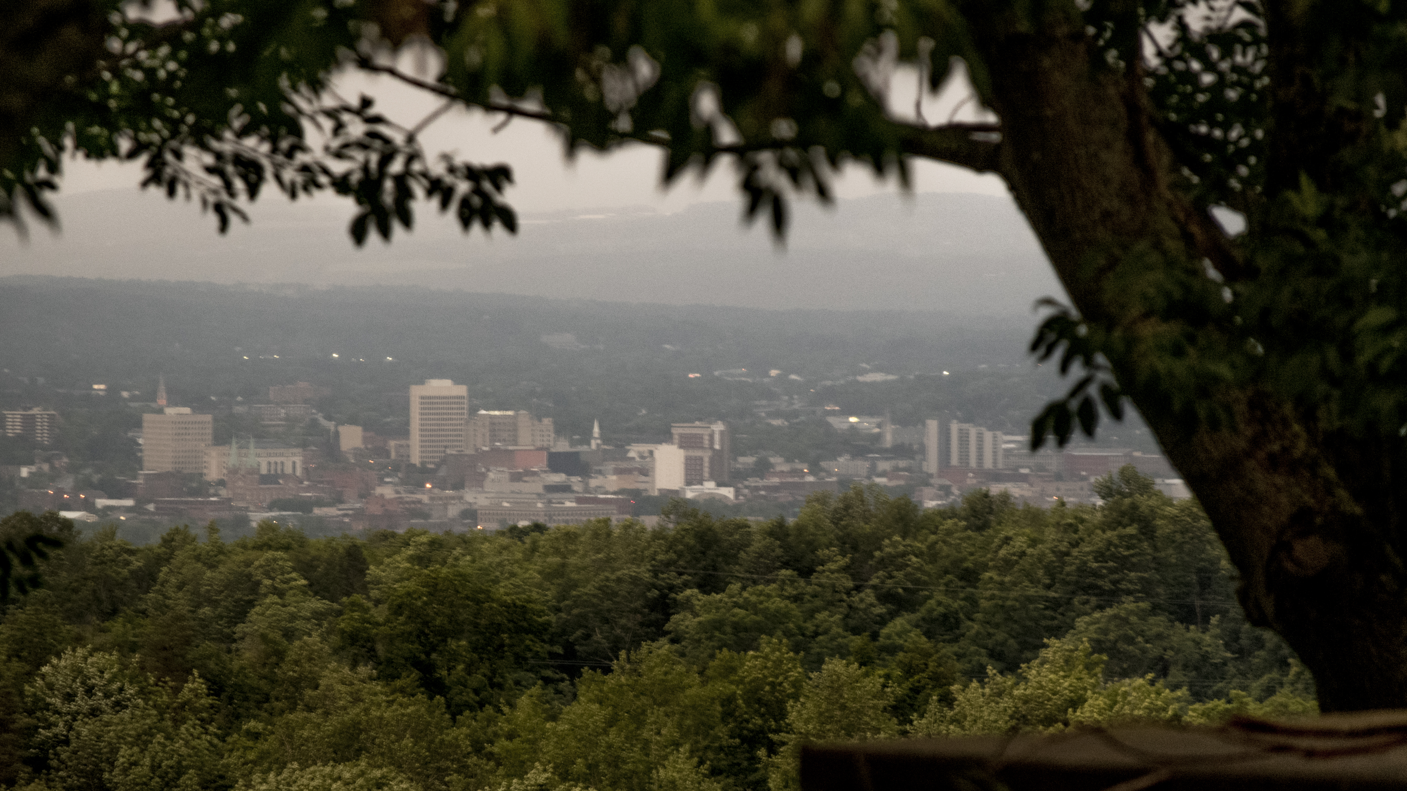 View of The City Of Utica From the Hills Surrounding he Mohawk Valley.